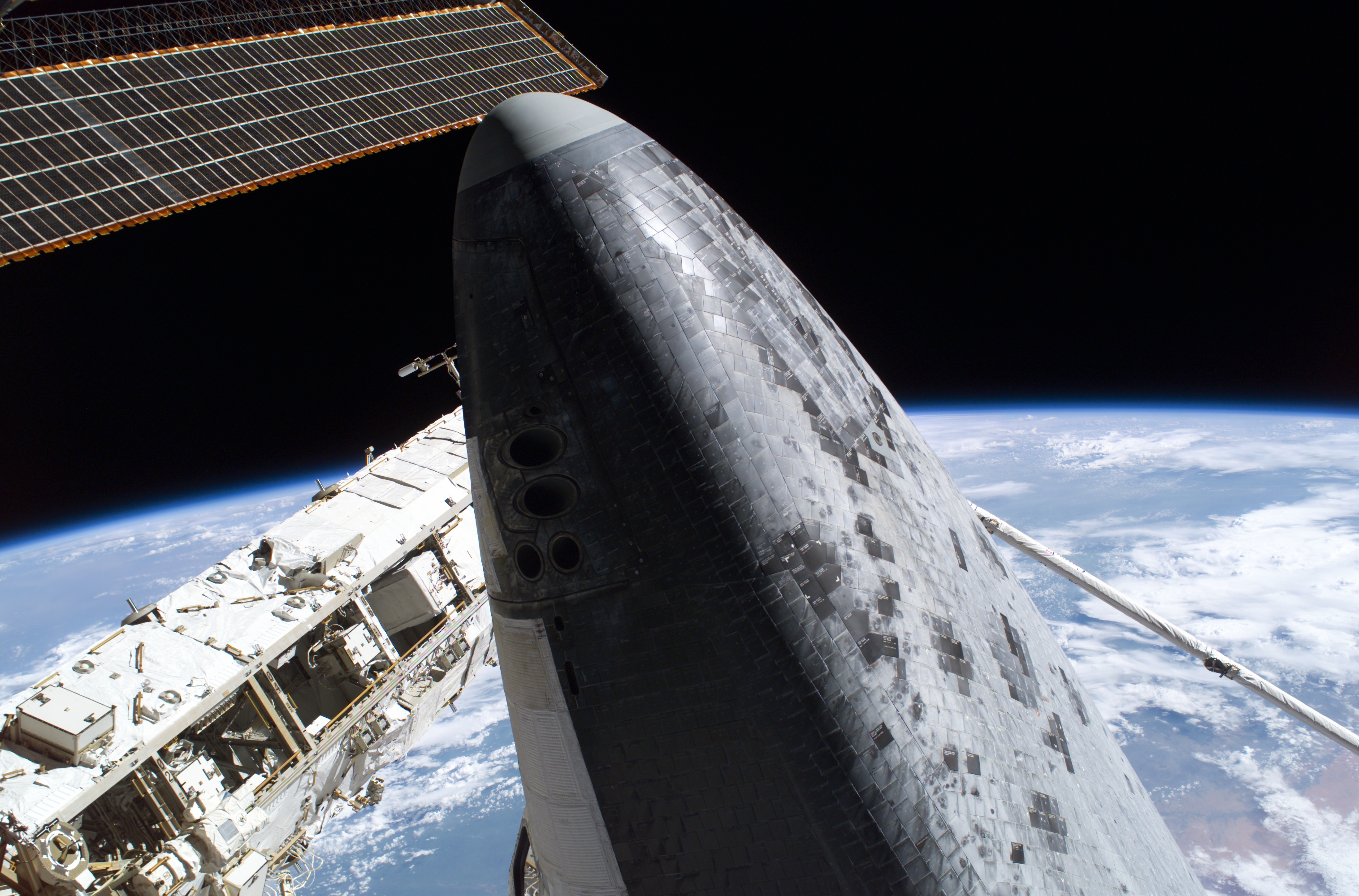 The blackness of space and Earth’s horizon form the backdrop for this image featuring the nose of the Space Shuttle Discovery while docked to the International Space Station. A portion of a Station truss is visible at bottom left. The image was photographed by astronaut Stephen K. Robinson, STS-114 mission specialist, during the mission’s third session of extravehicular activities (EVA).